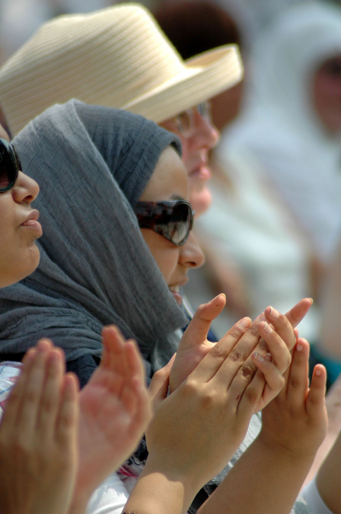 Crowd applause taken at the Liverpool Arabic Arts Festival 2006applause 2